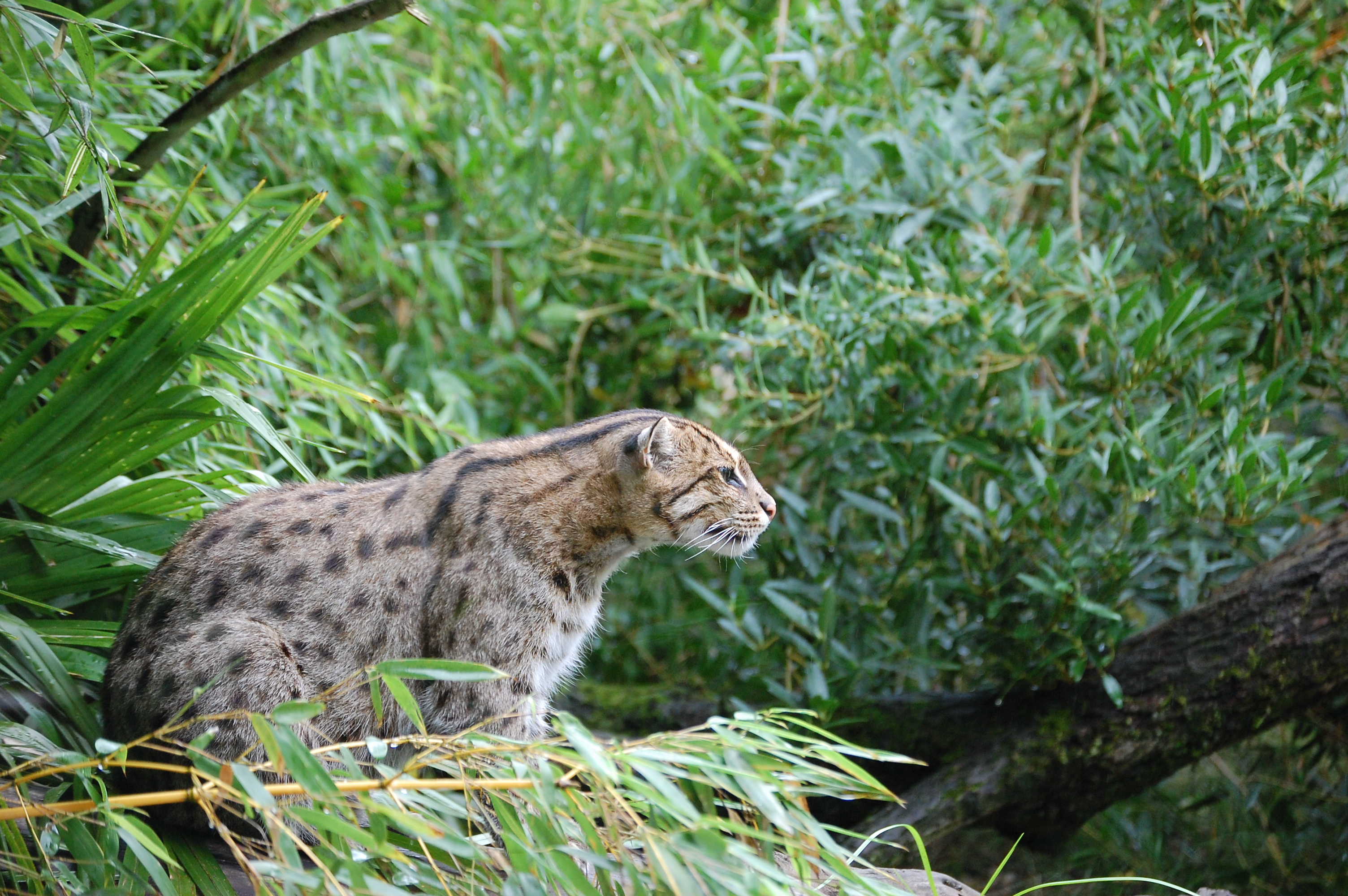 A fishing cat (Prionailurus viverrinus) in Pessac Zoo.